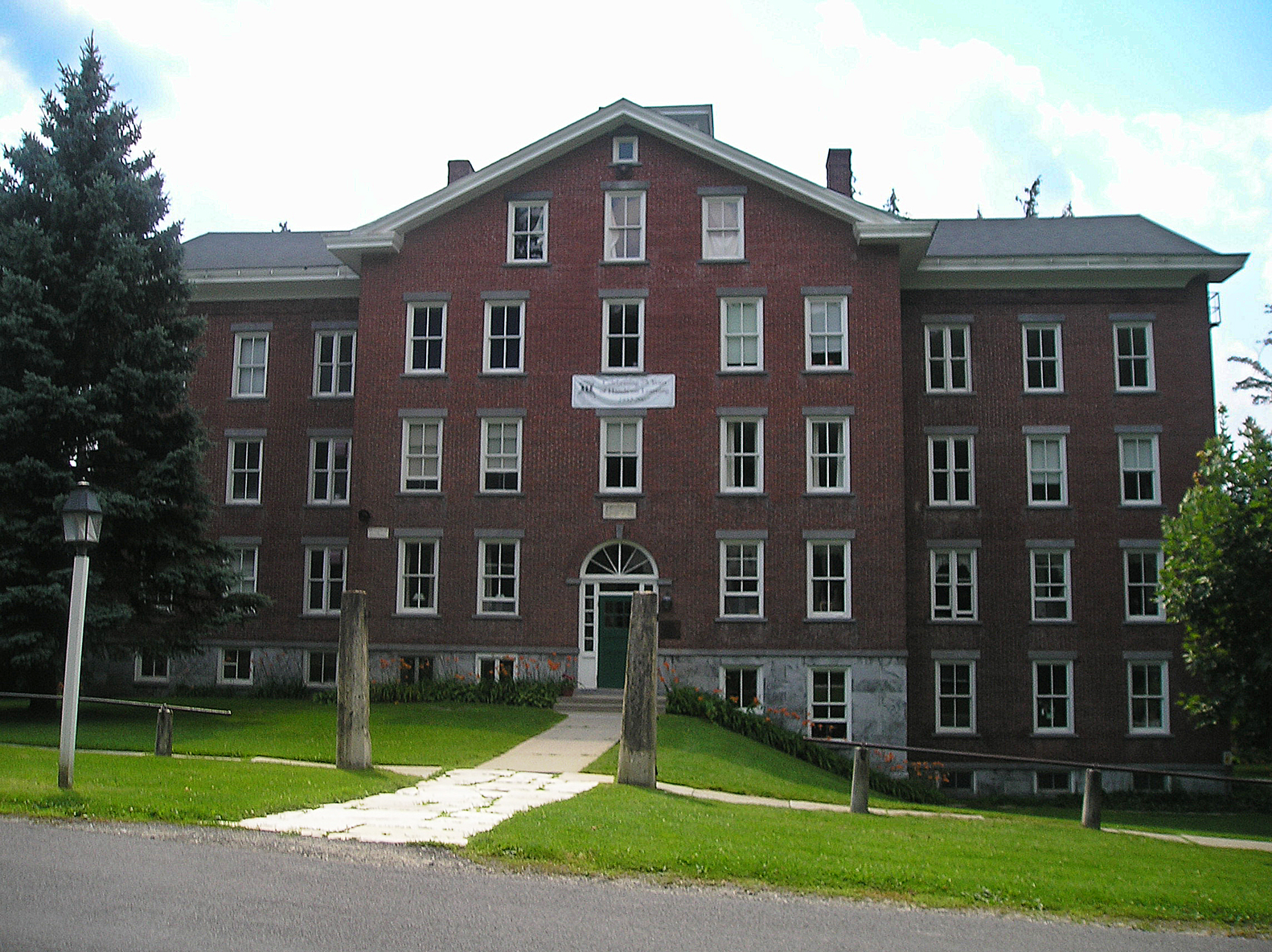 Building #1 and Main dwelling for the Mount Lebanon Shaker Society on Shaker Road in New Lebanon, New York as photographed 12 July 2008 from across Shaker Rd.